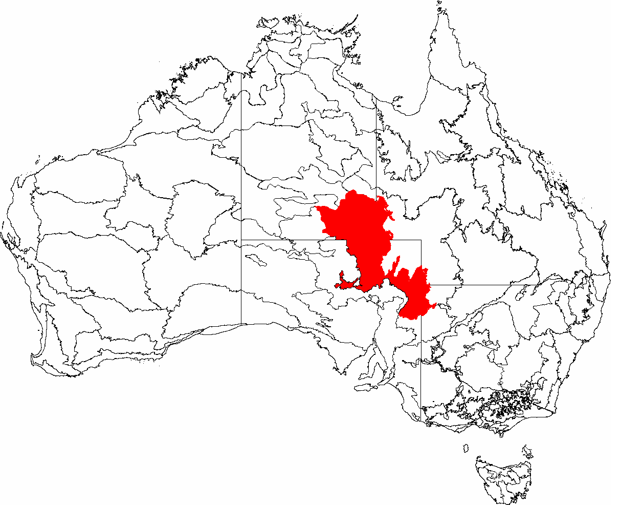 This is a map of the Interim Biogeographic Regionalisation of Australia (IBRA), with state boundaries overlaid. The Simpson Strzelecki Dunefields region is shown in red.